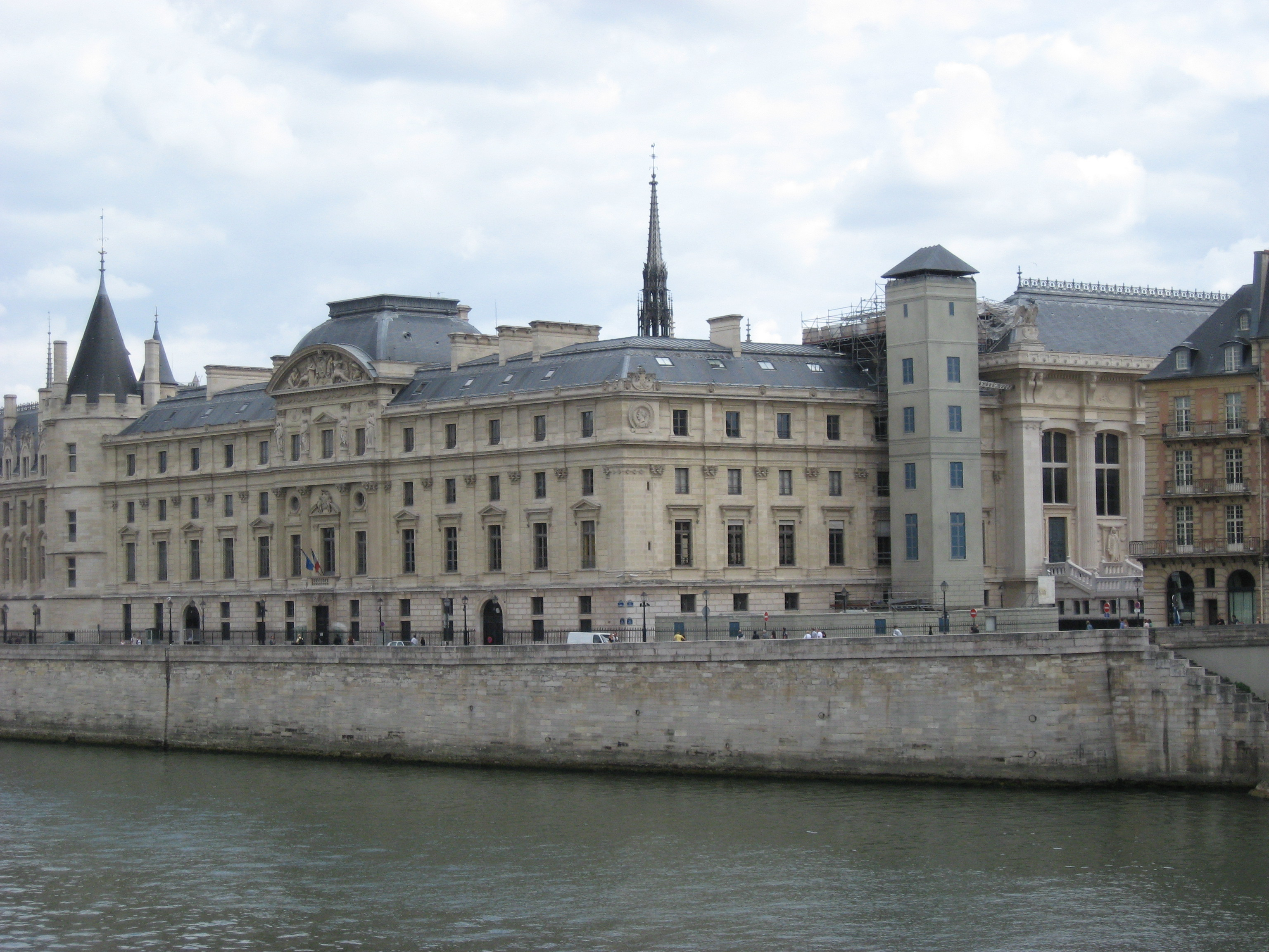 Cour de Cassation France, Paris